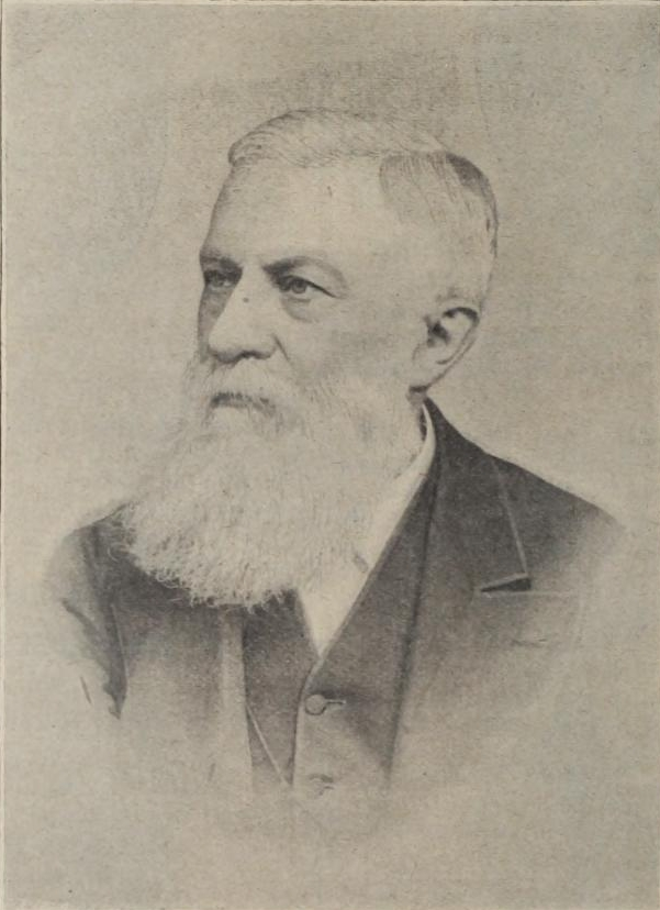 From:Griffith John: The Story of Fifty Years In China by R. Wardlaw Thompson; London; Religious Tract Society; 1906